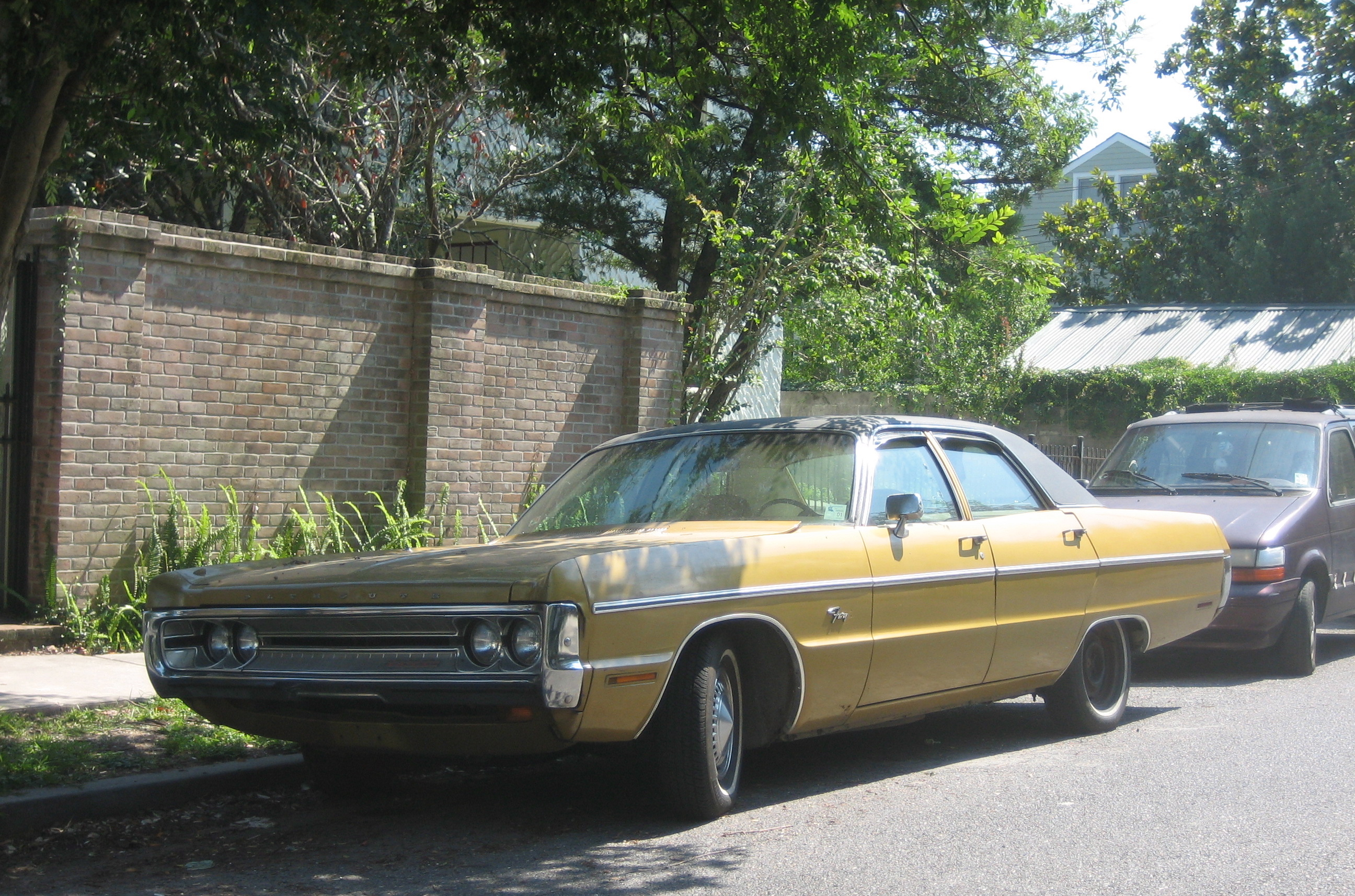 1970 or 1971 Plymouth Fury parked in New Orleans (This appears to be a 1971 Plymouth.)